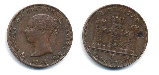 1842 half quart coin issue of Gibraltar (see Gibraltarian real).